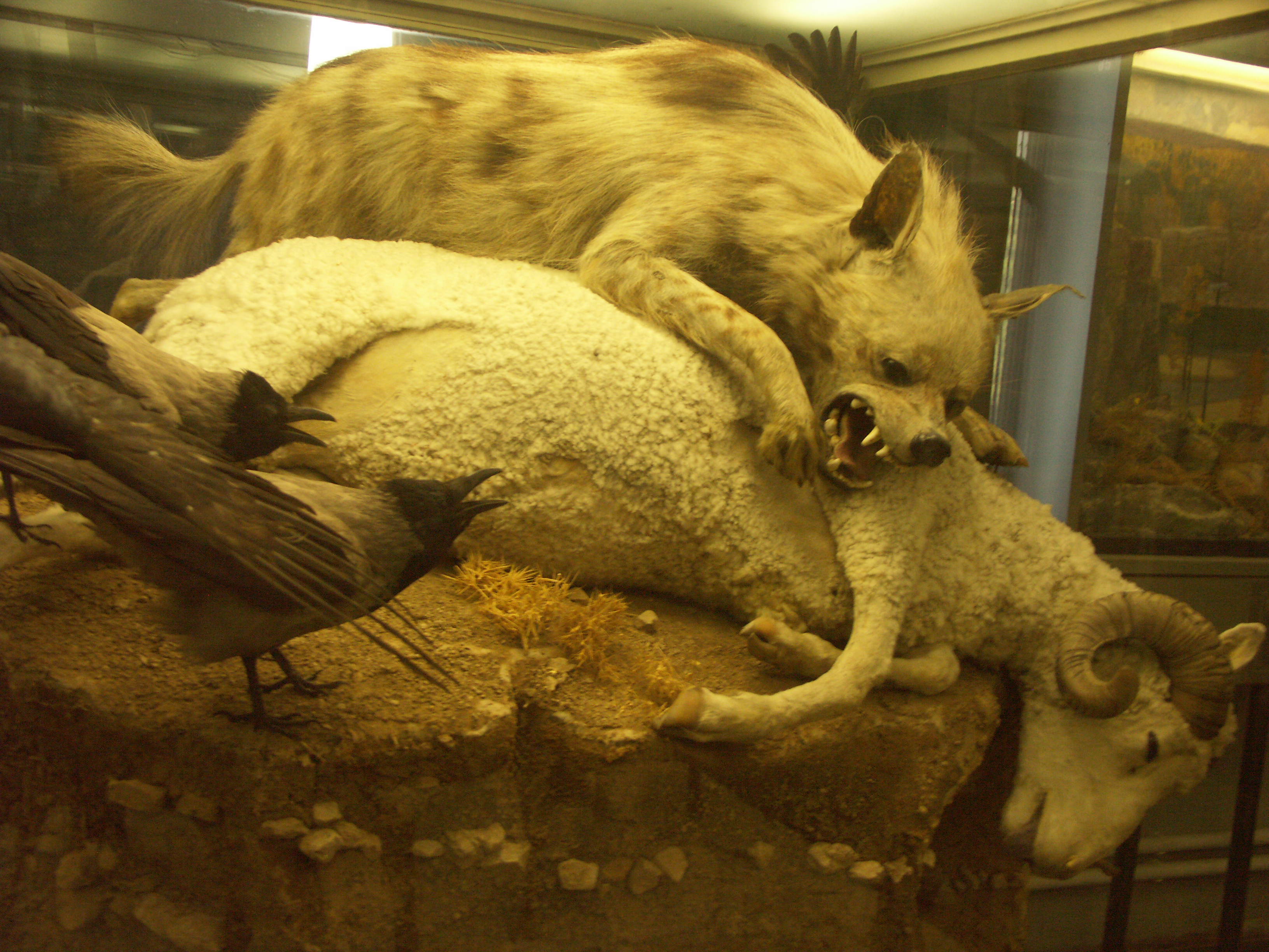 Taxidermy exhibit of striped hyena defending sheep carcass from hooded crows in the Zoological Museum of the Zoological Institute of the Russian Academy of Sciences